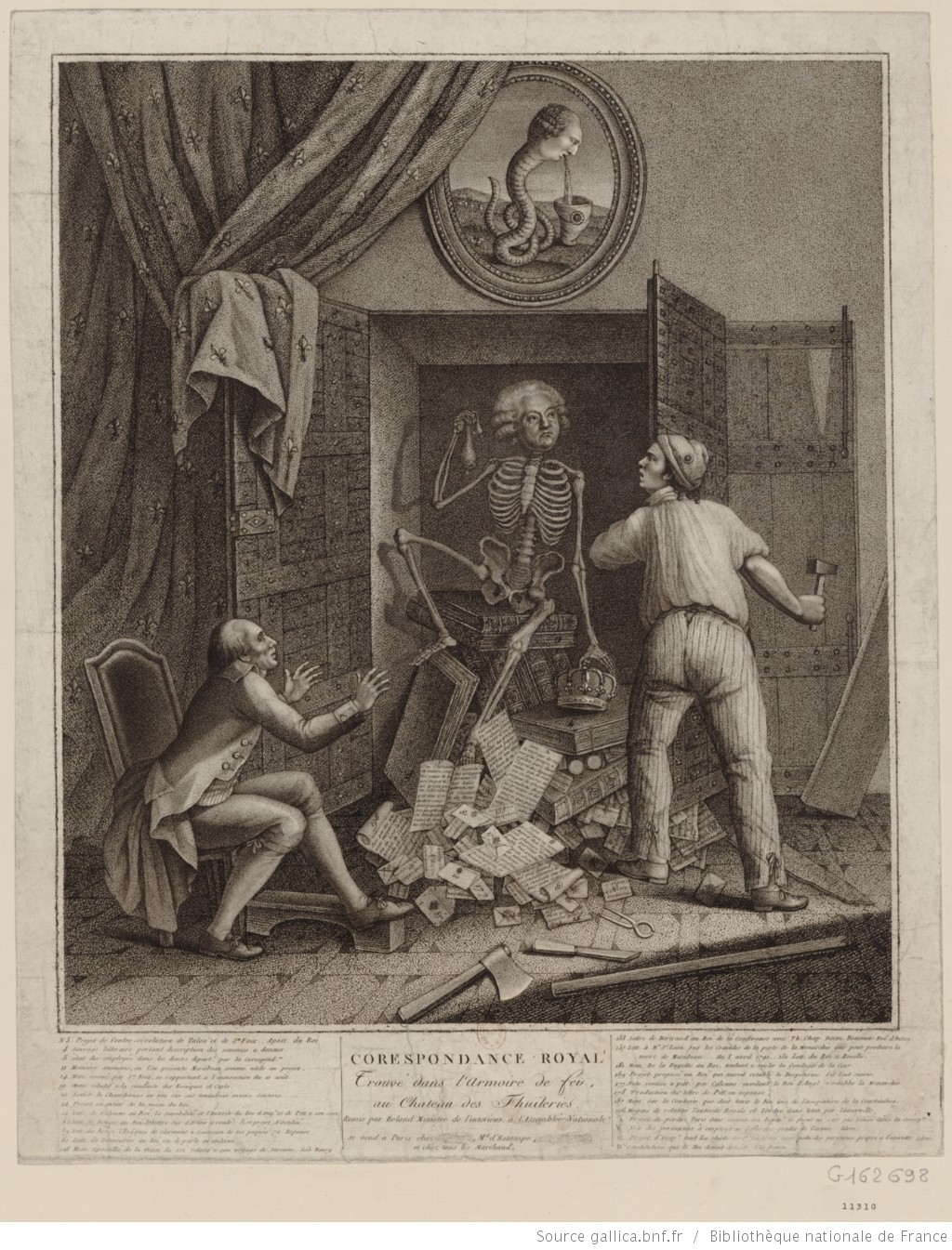 Caricature showing the opening of the l'Armoire de fer. On the right, the worker Gamain who created this safe for the French king Louis XVI and who opens it during the Révolution for the ministre Roland on the left. The skeleton of Mirabeau get out the safe : the documents found in the safe show secret letters between Mirabeau and the royal family and will leave to get him out from the Panthéon. In a medalion above the door, the king Louis XVI is shown like a snake.